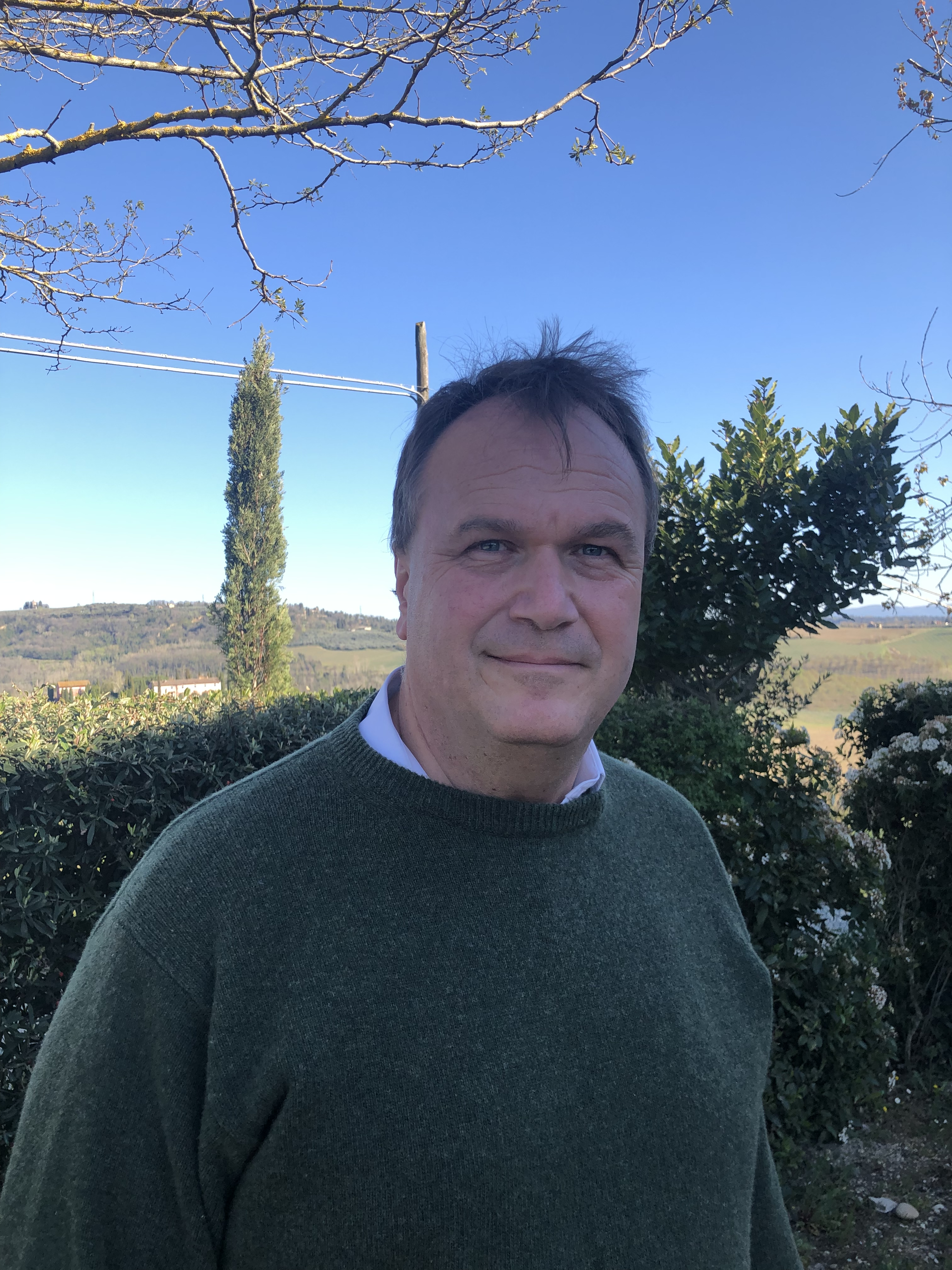 Portrait of Sebastian James, 2018